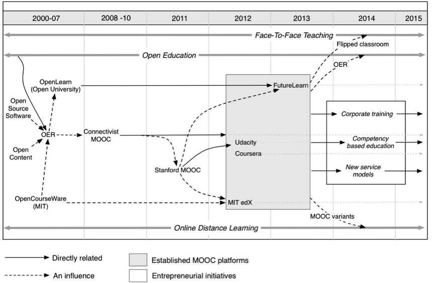 Displays a timeline of the development of MOOCs and open education with respect to various organisational efforts in the areas. Updated version 2015.